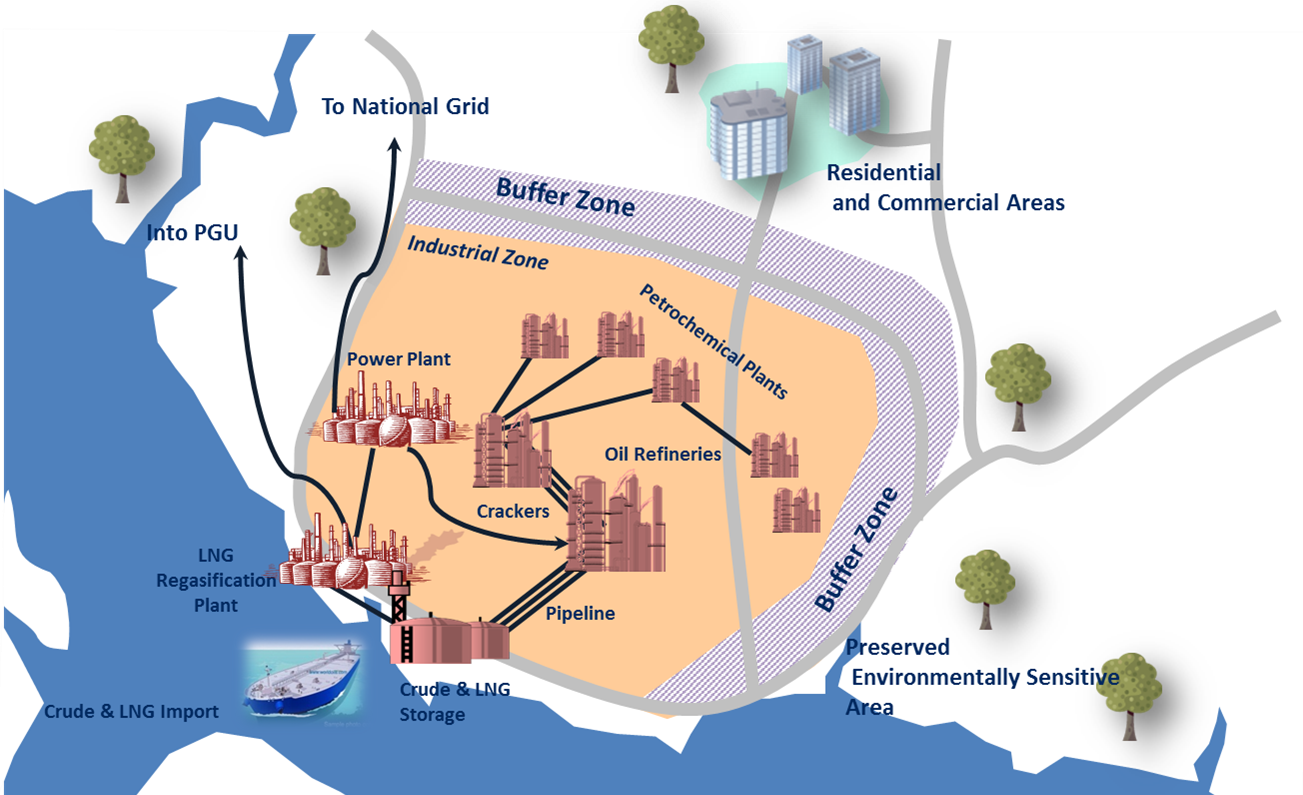 Pengerang Integrated Petroleum Complex